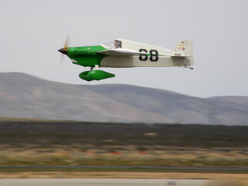 Cassutt formula one race plane Wasabi flown by Elliot Seguin taking off from the Mojave Air & Space Port